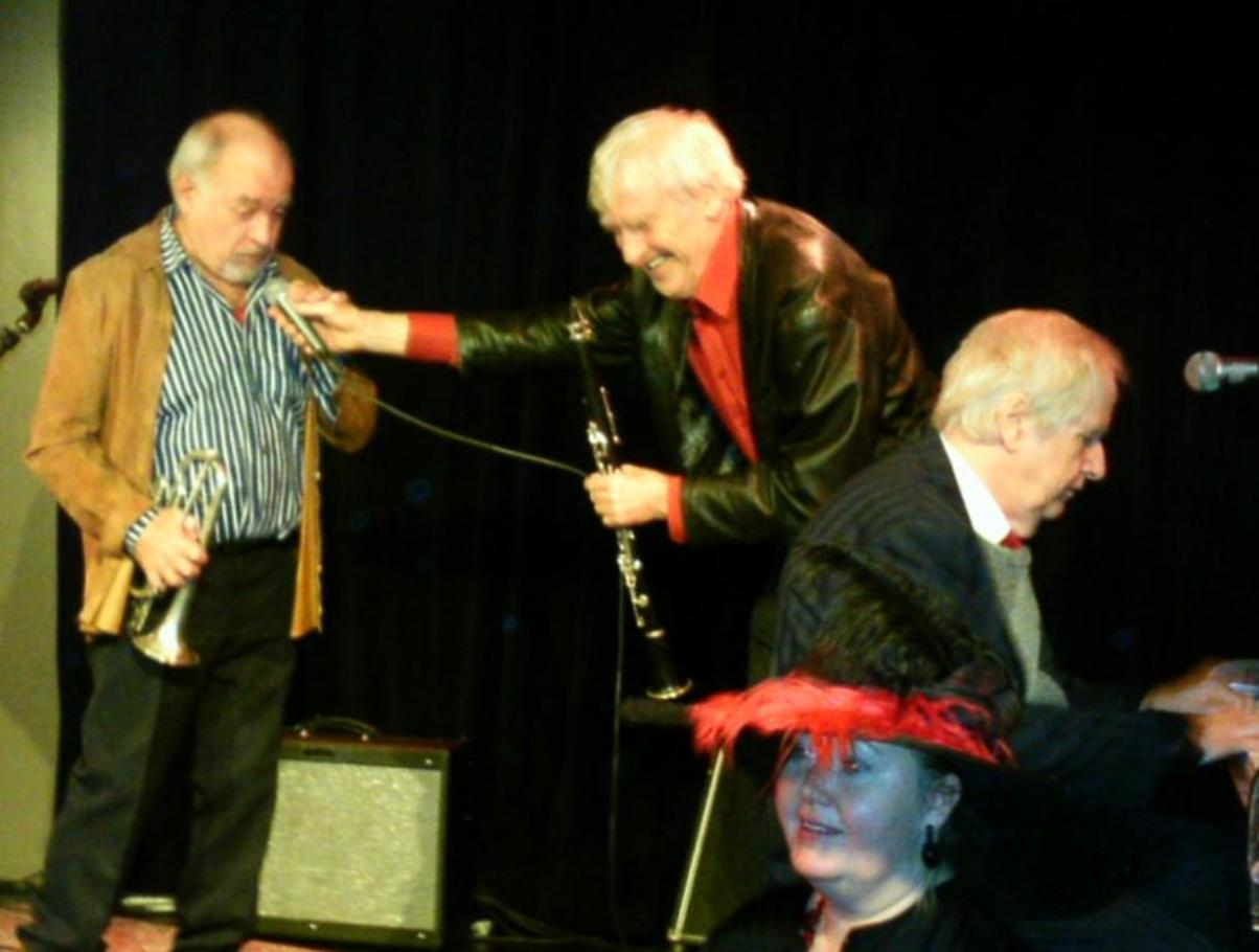 Anders Linder (center) and Carl-Axel Dominique (right) jam at the Kim Anderzon funeral receptionPlace: Etablissemanget, Södra teatern, Stockholm, Sweden